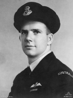 Studio portrait of Adrian Philip Goldsmith DFC DFM, an Australian flying ace during the Second World War.